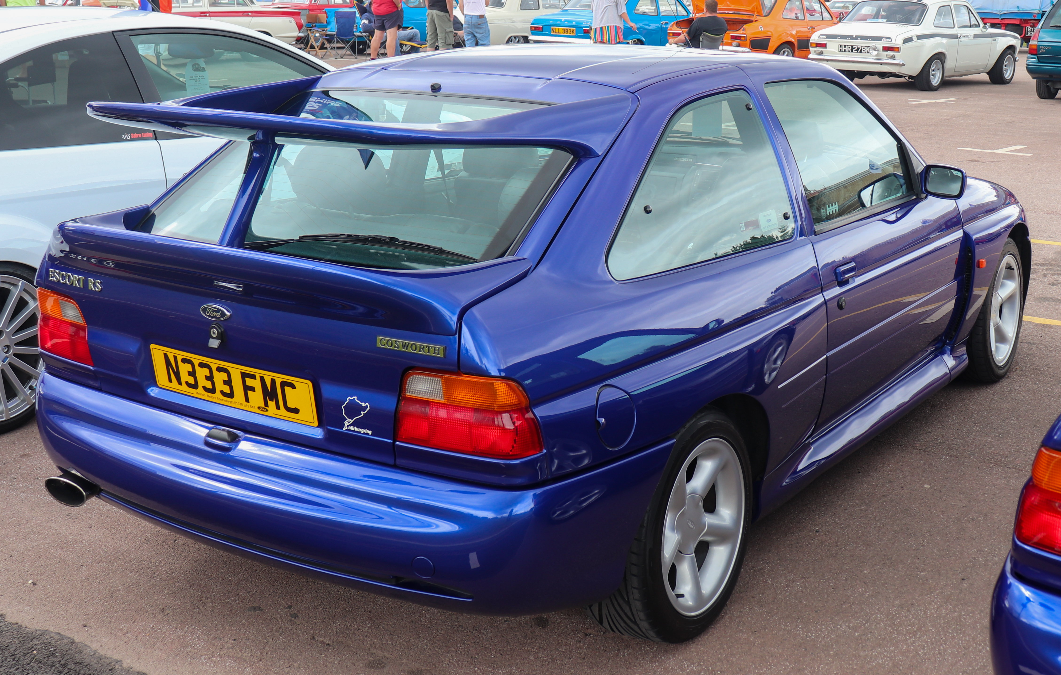 1996 Ford Escort RS Cosworth 2.0 Rear Taken at the British Motor Museum Old Ford Rally 2019, Gaydon